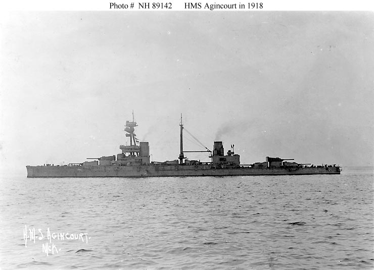 HMS Agincourt (British Battleship, 1914) Photo #: NH 89142 Photographed in 1918. Collection of Lieutenant Commander P.W. Yeatman, USN (Retired). U.S. Naval Historical Center Photograph.